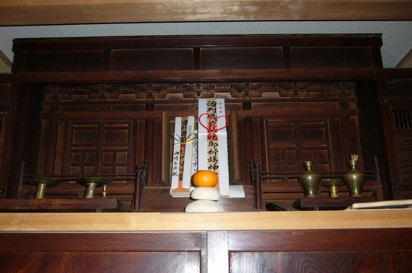 Kamidana - a household Shinto altar